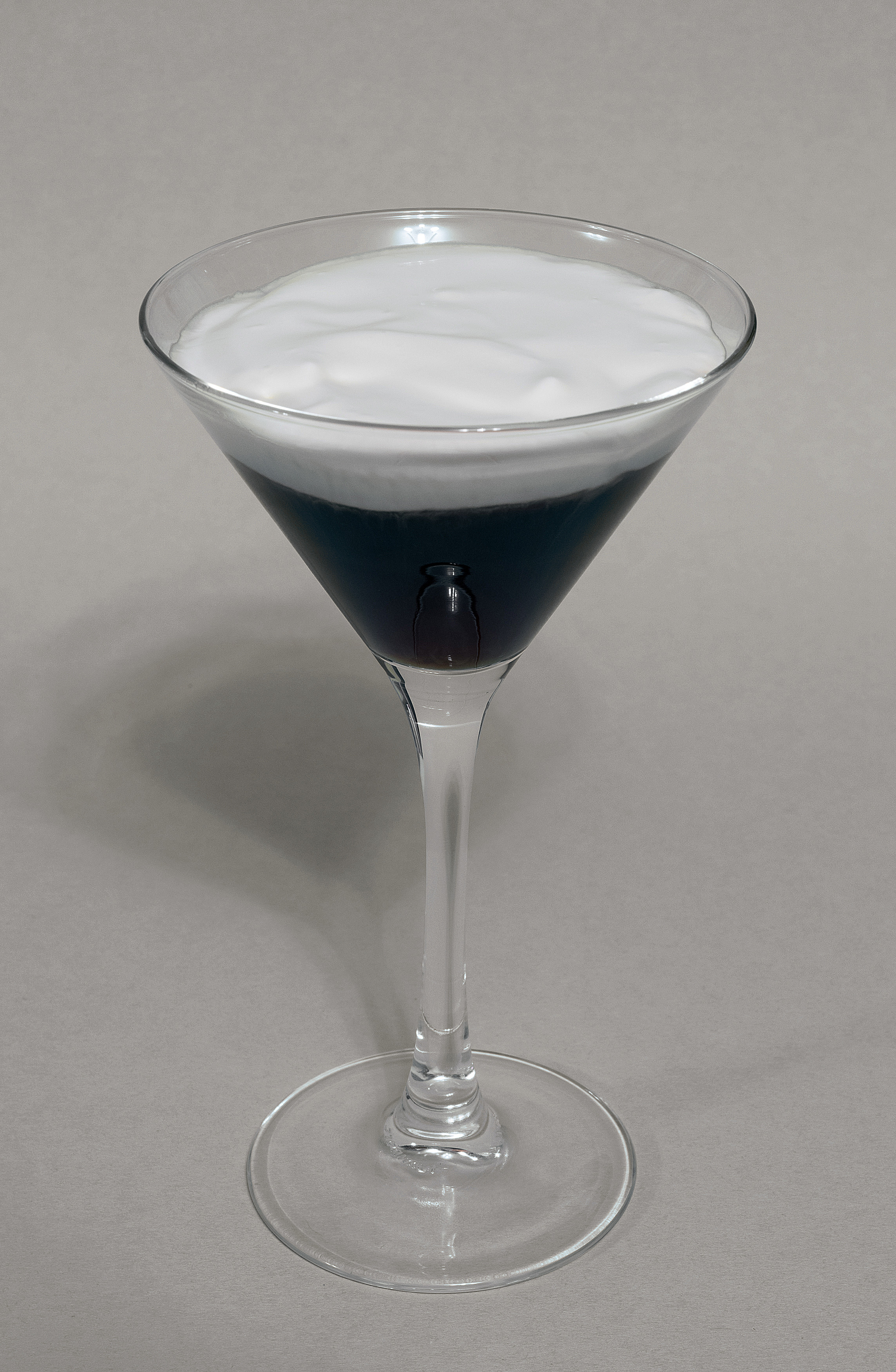 A "White Russian" in a cocktail glass